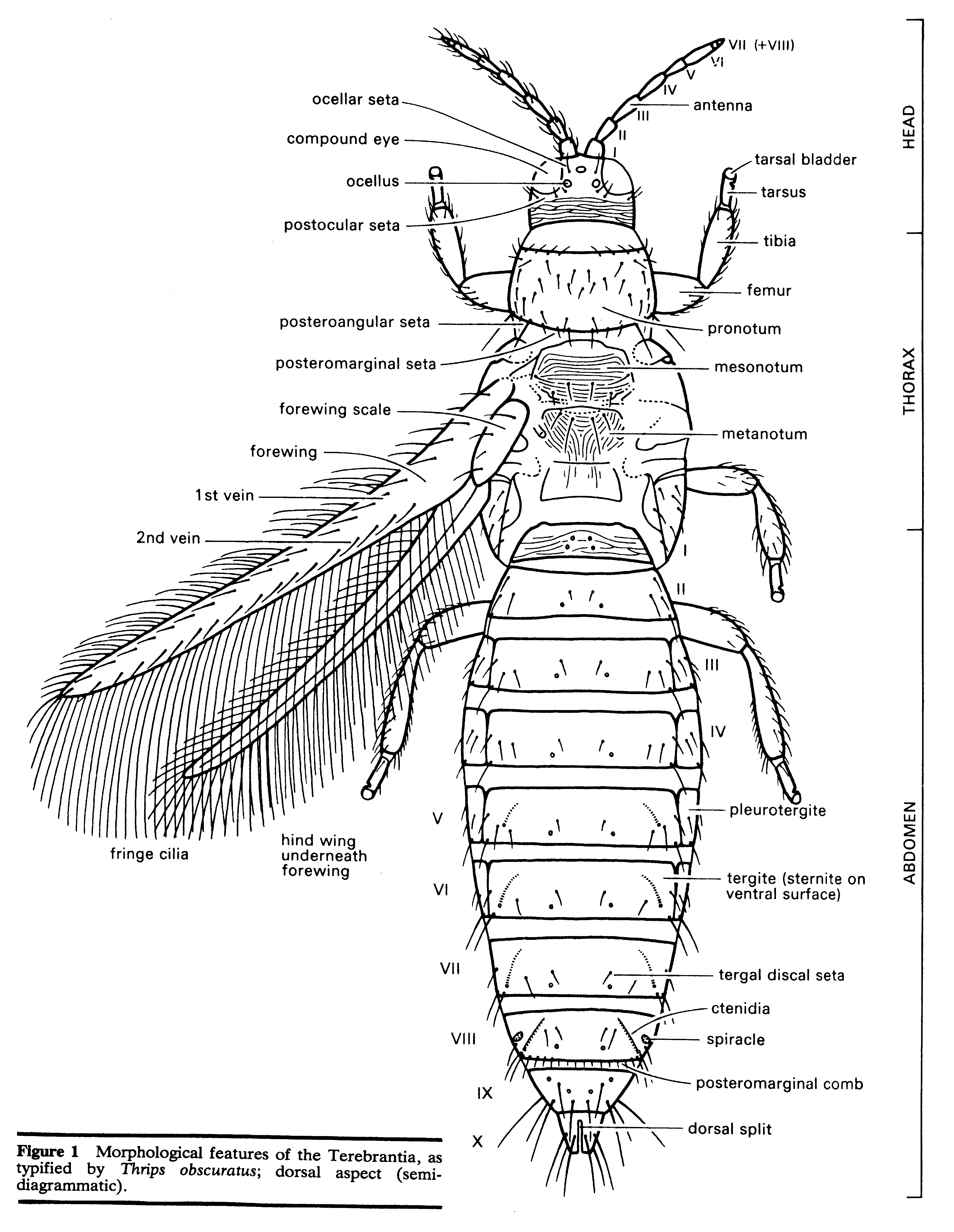 (Thysanura: Thripidae) Thrips obscuratus morphology